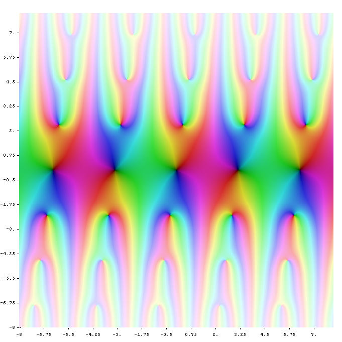 function EllipticTheta[1,z,0.1*Exp[i*pi*1/10] in the complex plane.